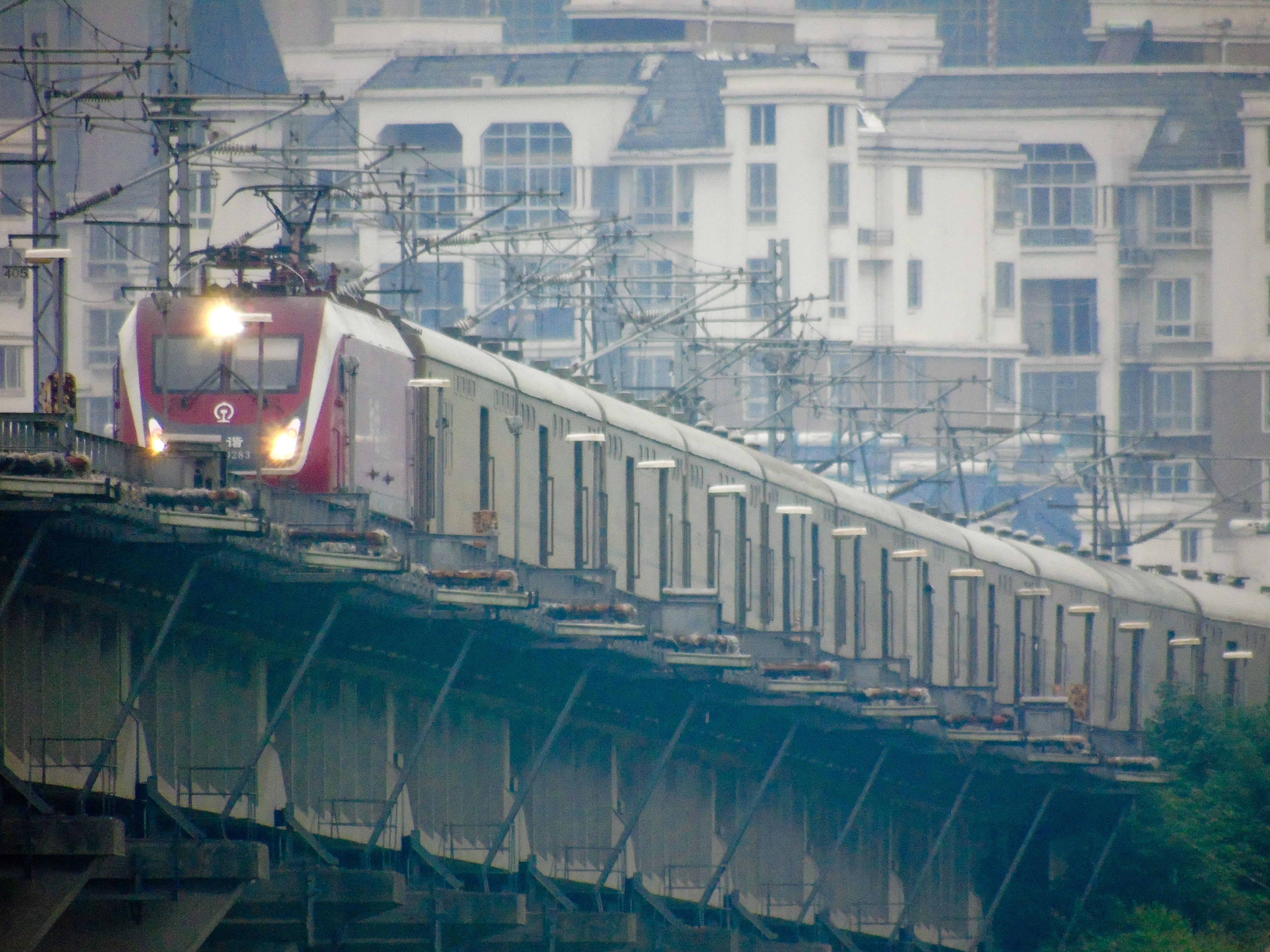 HXD1D0268 X105 Huangcun to Minhang Bengbu Railway Station